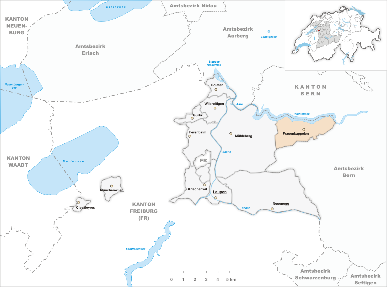 Municipality Frauenkappelen